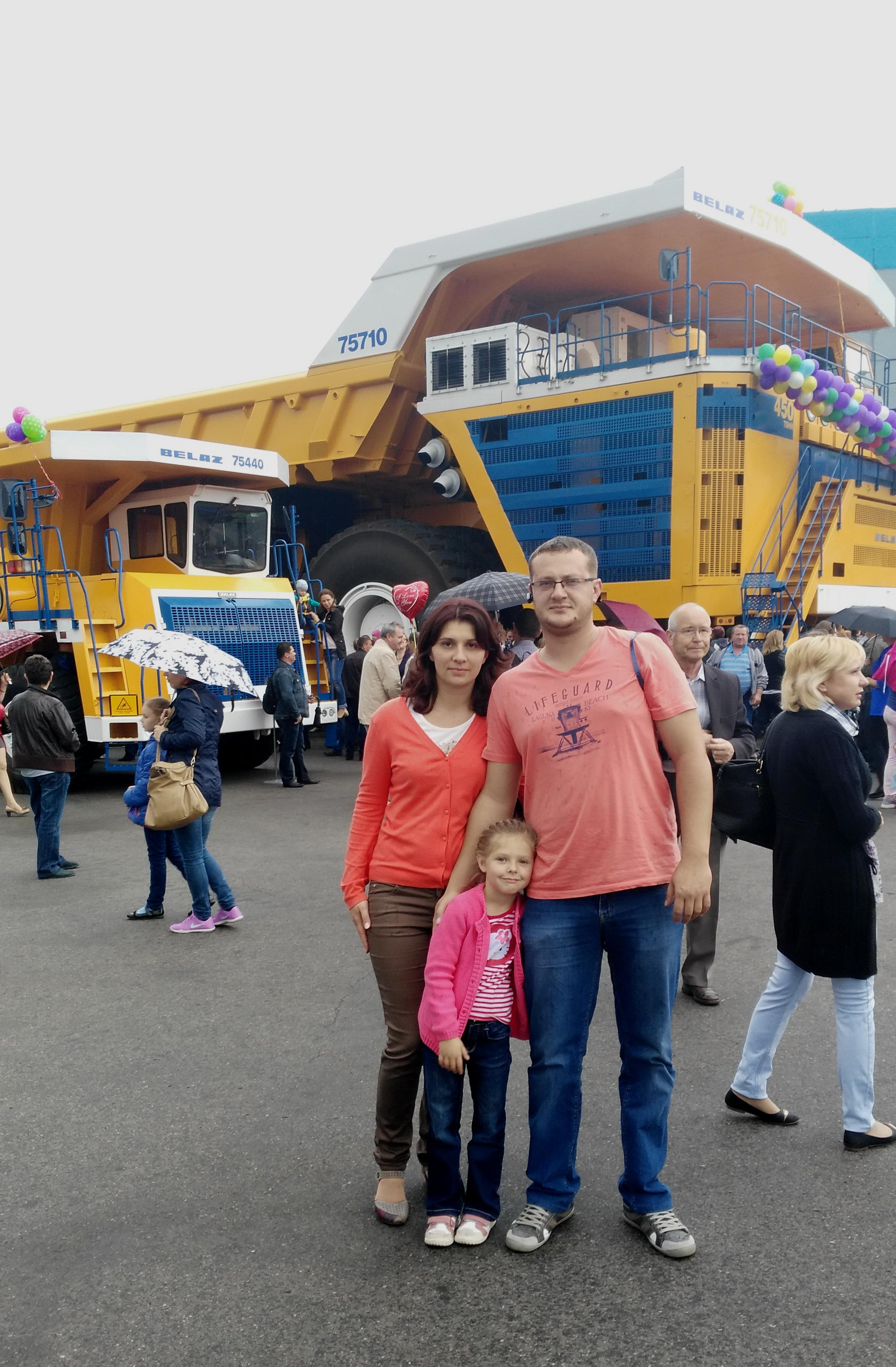 Modern Belarusian young family on the background of the truck "BelAZ-75710" in Zhodino city (Belarus). Photo 2015